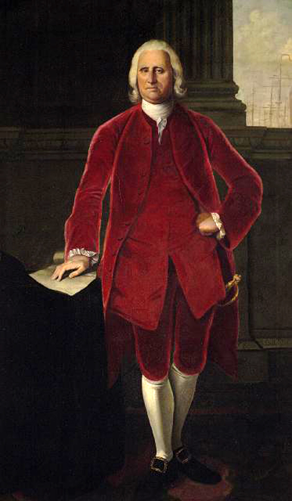 Oil on canvas portrait of Cadwallader Colden by Matthew Pratt 1772